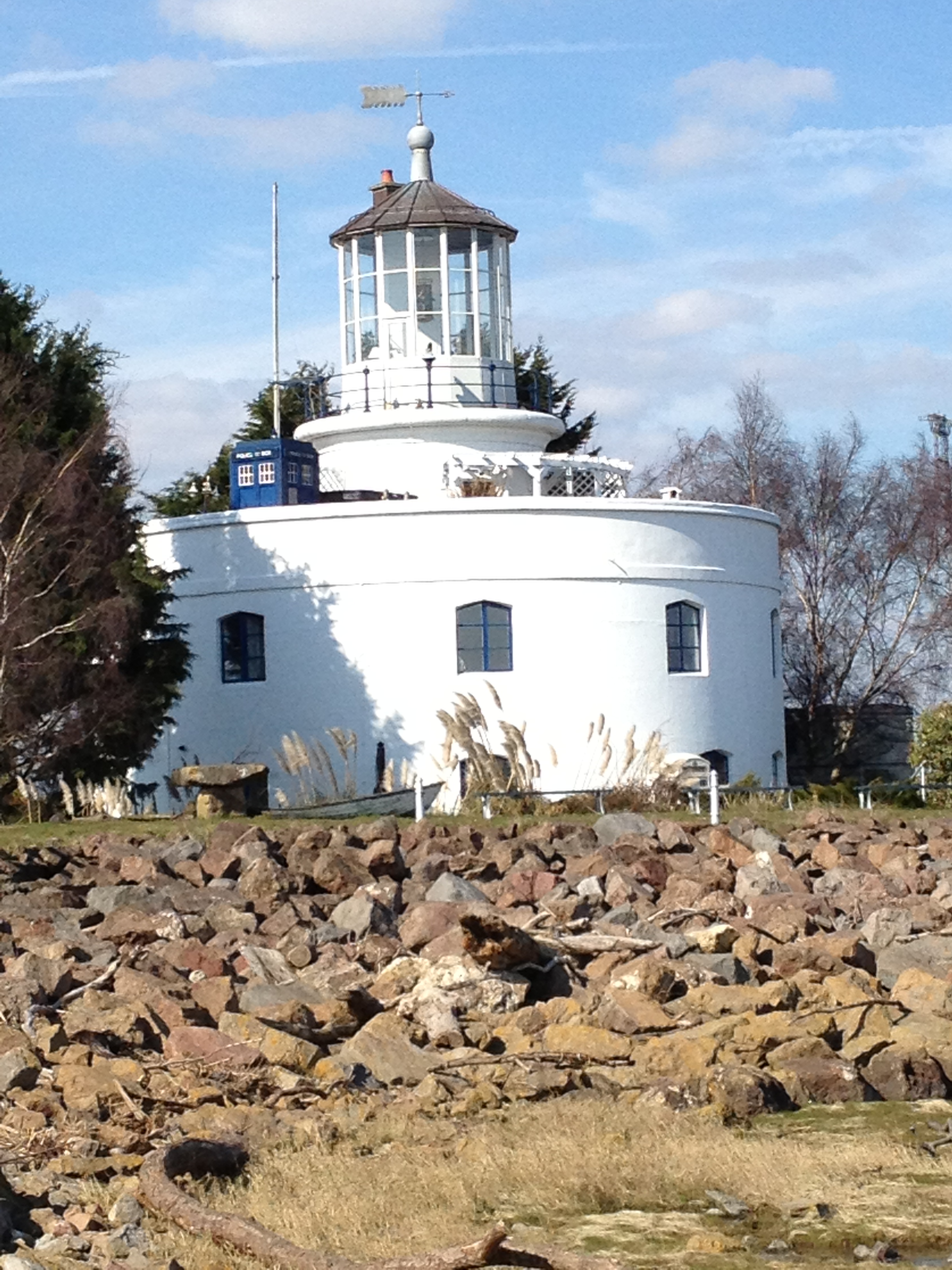 West Usk Lighthouse, Severn Estuary at the mouth of the River Usk, south of the city of Newport, South Wales. 10 April 2013.